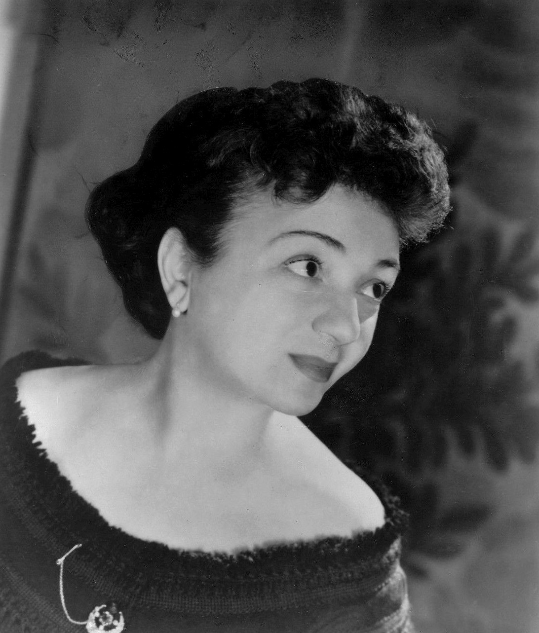 Photo of actress Molly Picon.